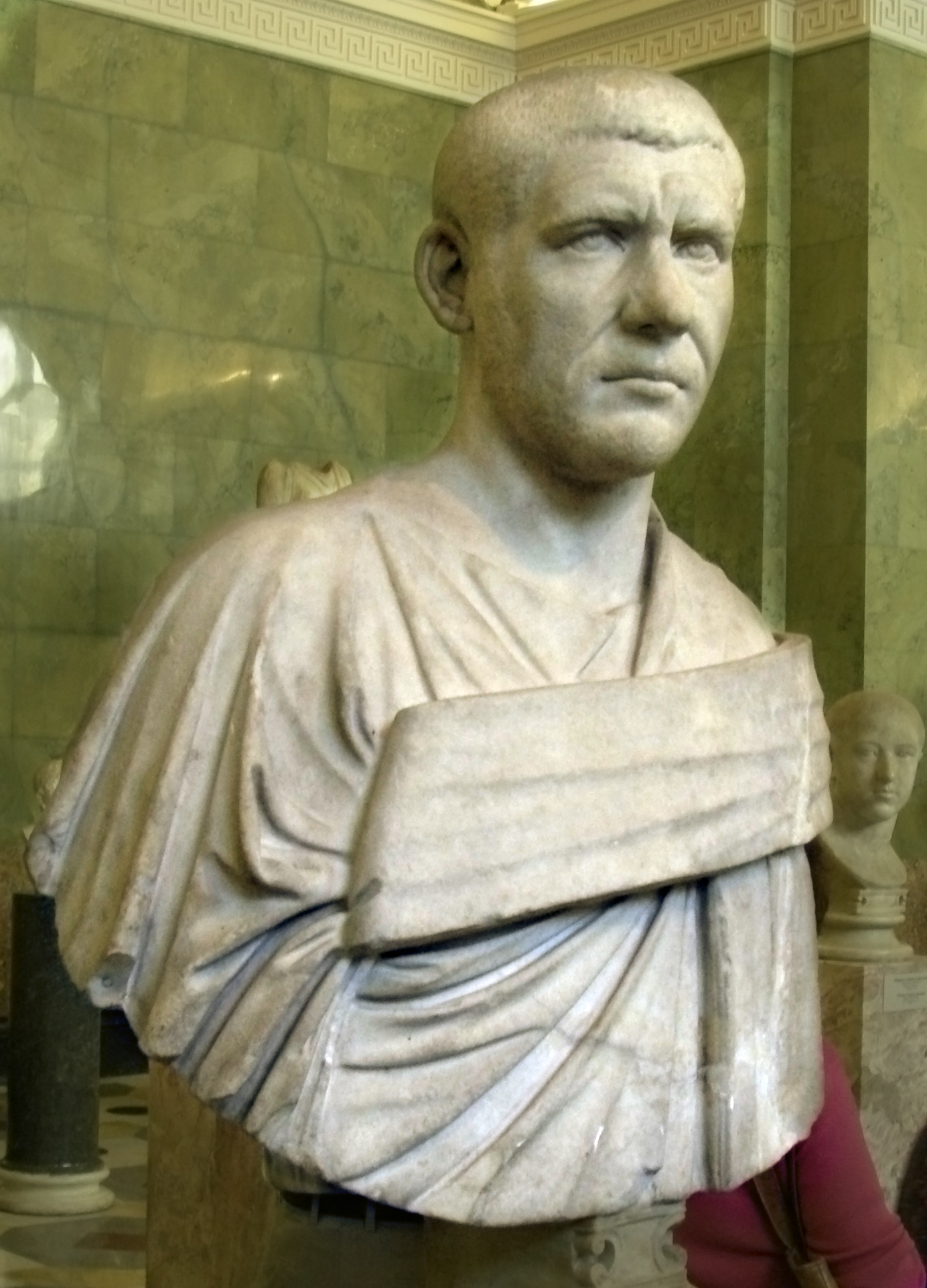 Bust of Roman emperor Philip the Arab, who ruled 244-249 AD, at the Hermitage Museum, Russia. The date of the bust is given on the museum's web site as circa mid 3rd century.